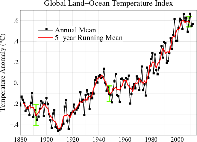 Line plot of global mean land-ocean temperature index, 1880 to present, with the base period 1951-1980. The black line is the annual mean and the red line is the five-year running mean. The green bars show uncertainty estimates. [This is an update of Fig. 1A in Hansen et al. (2006).] The graph shows an overall long-term warming trend.